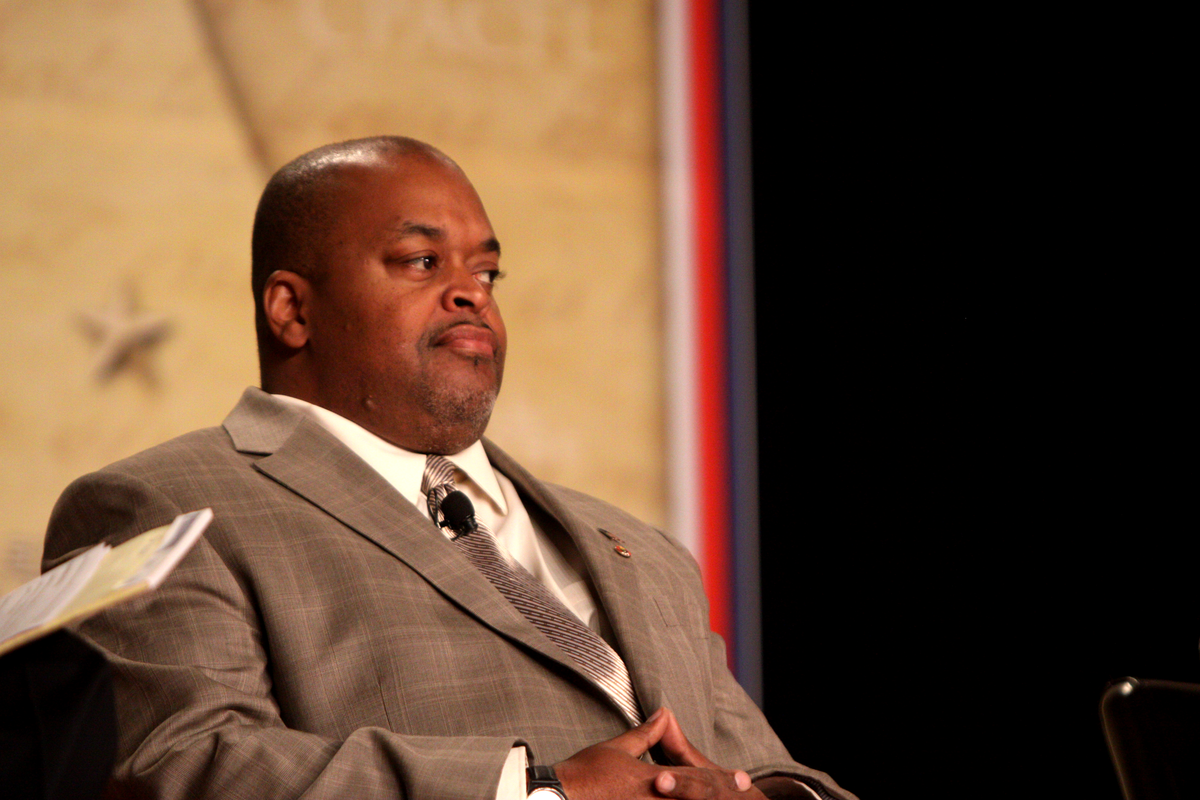 Niger Innis speaking at CPAC FL in Orlando, Florida.